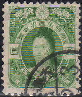 Empress Jingū